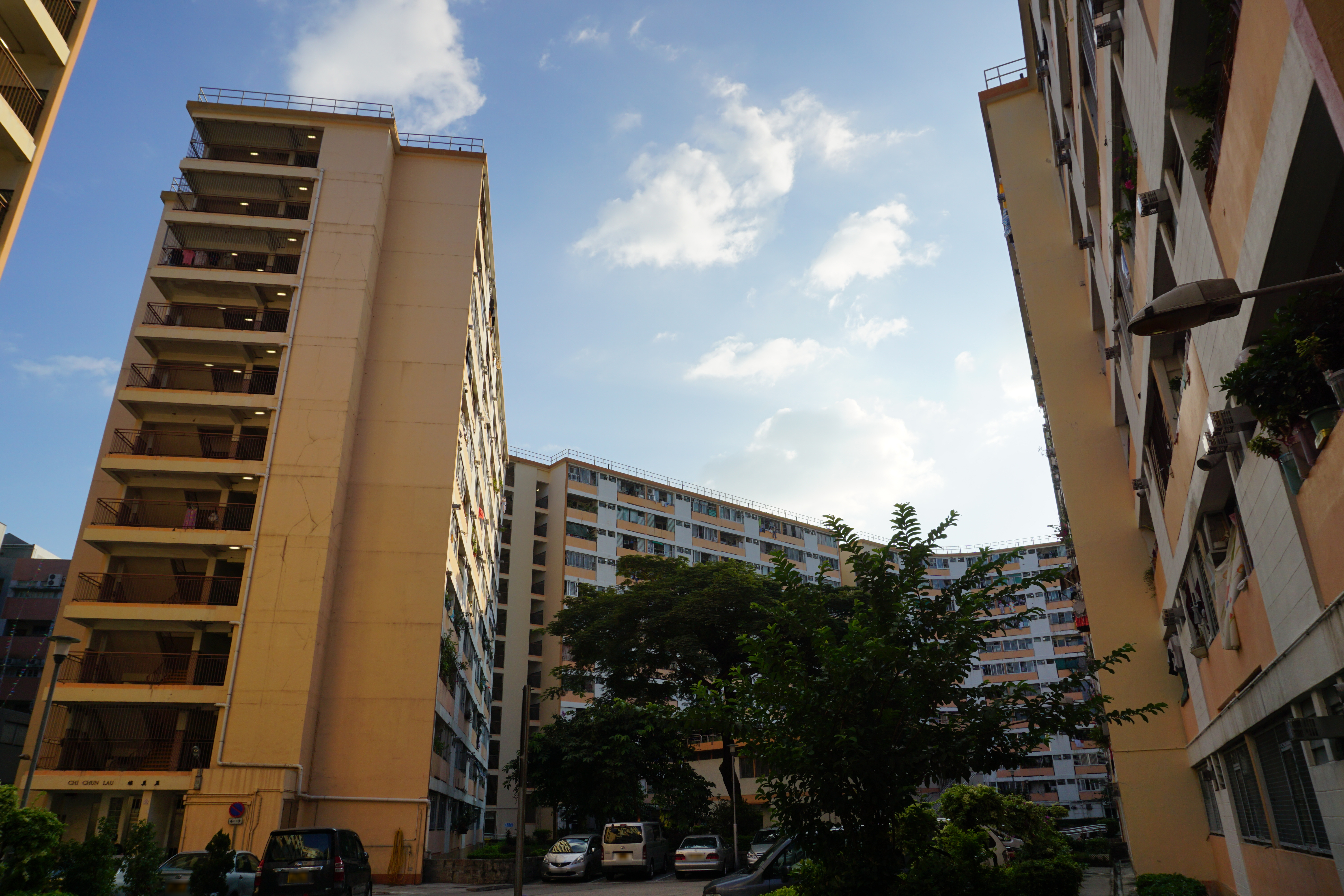 Chun Seen Mei Chuen in To Kwa Wan, Hong Kong.